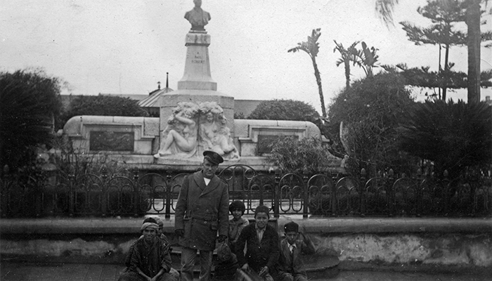 American soldier with a group of kids near the Paul Roberts monument in Orléansville (Chlef) 1943